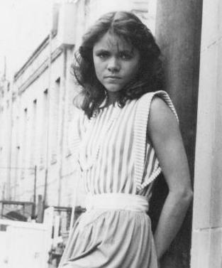 Donna Wilkes in still from Angel